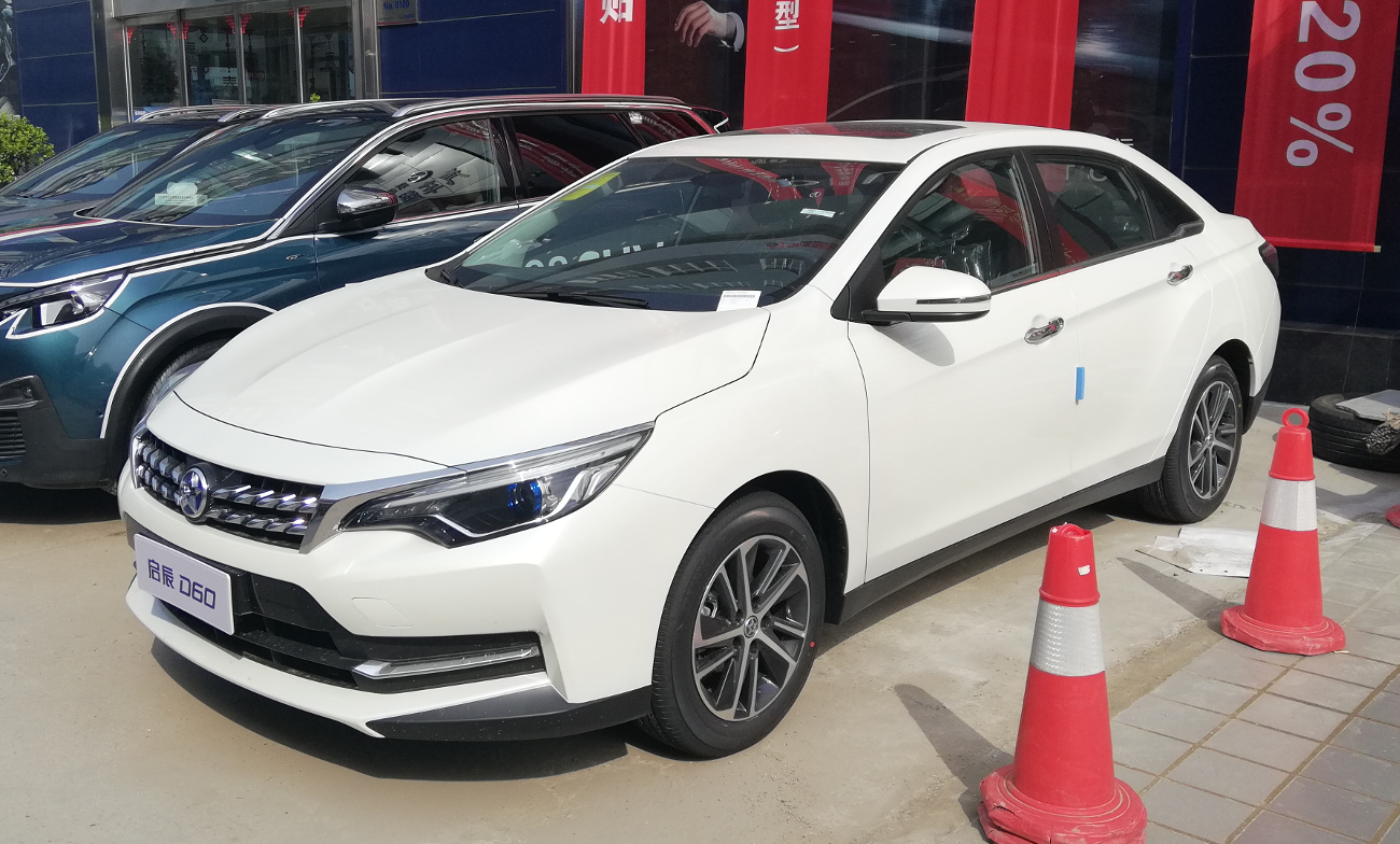 Venucia D60 photographed in Zhengzhou, Henan province, China.